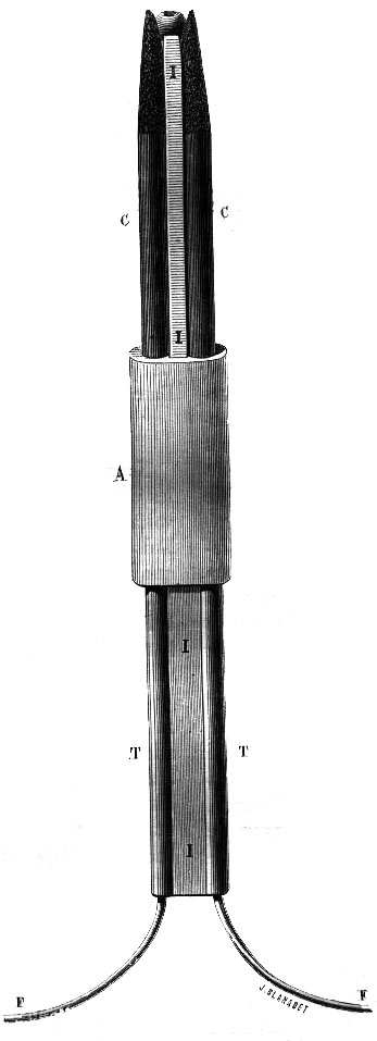 The Yablochkov candle invented in 1866